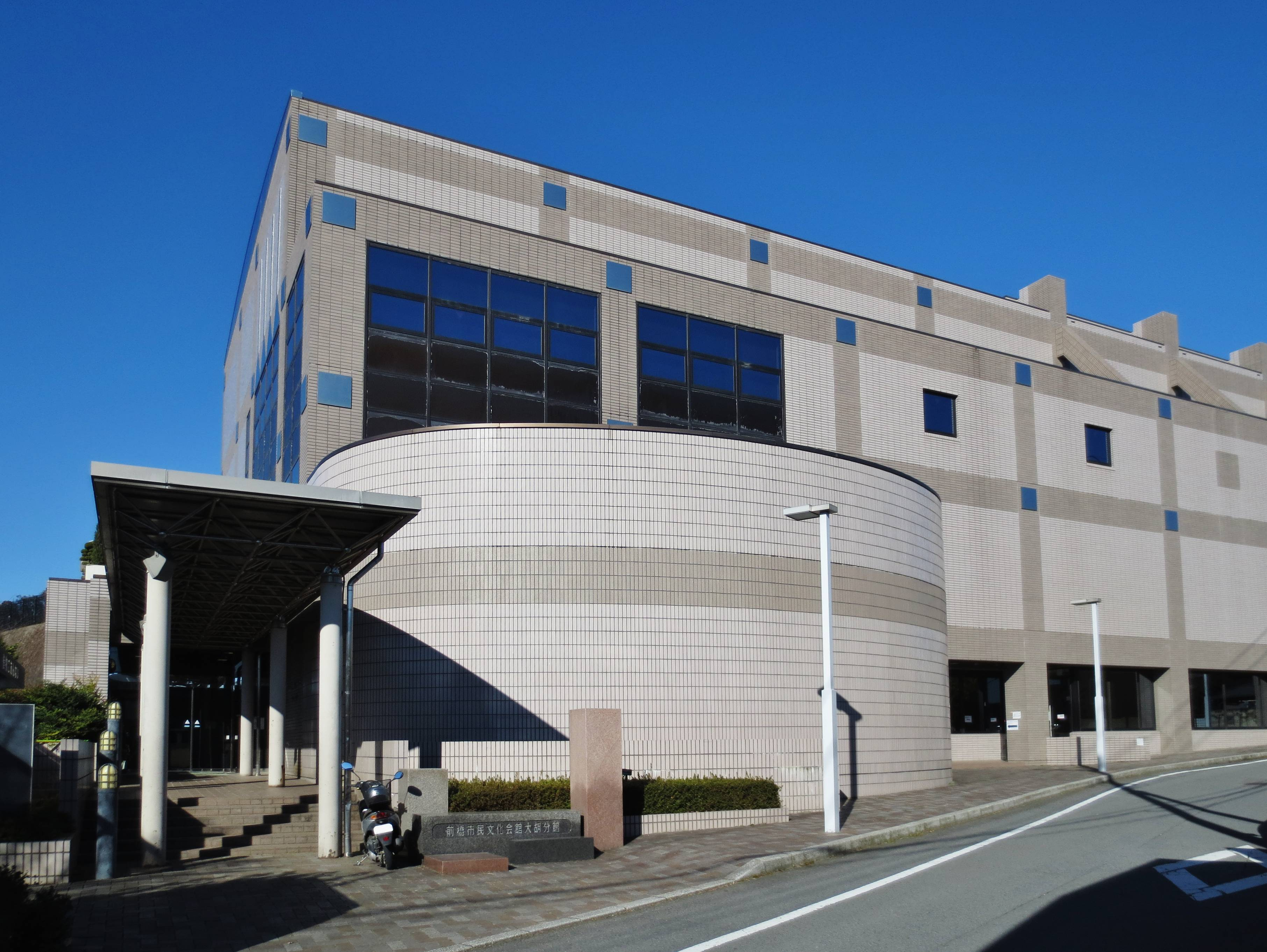 Ogo Shante.